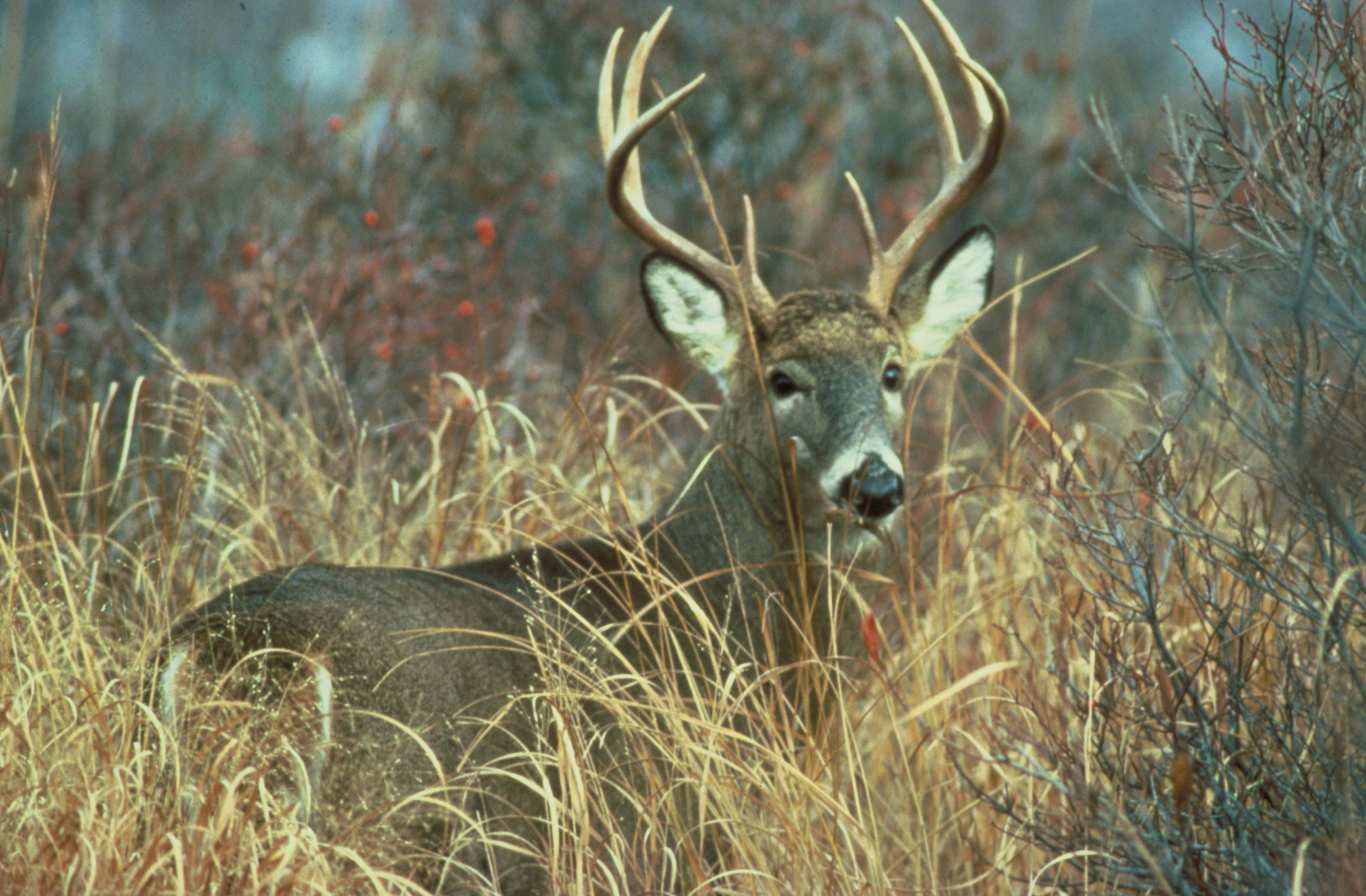 White-tailed deer (Odocoileus virginianus)